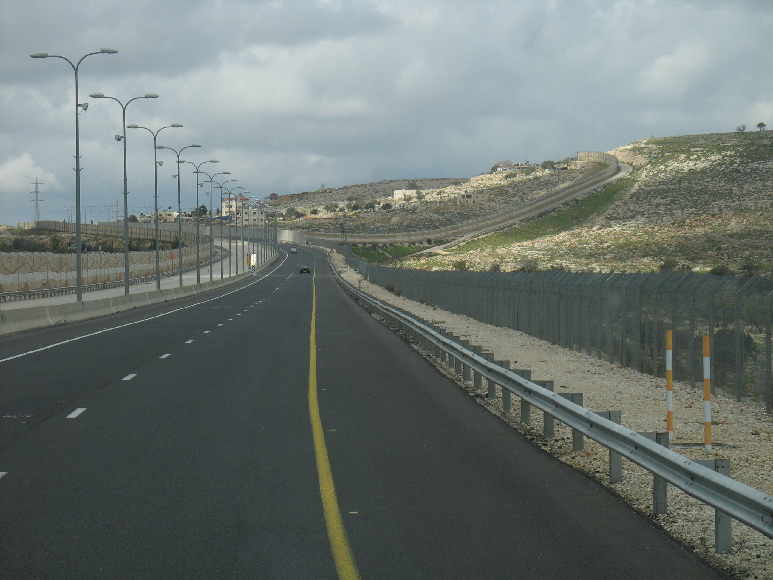 Israel/Palestine Highway 50 (Sderot Begin) (formerly Route 404) northward approaching Atarot Junction.